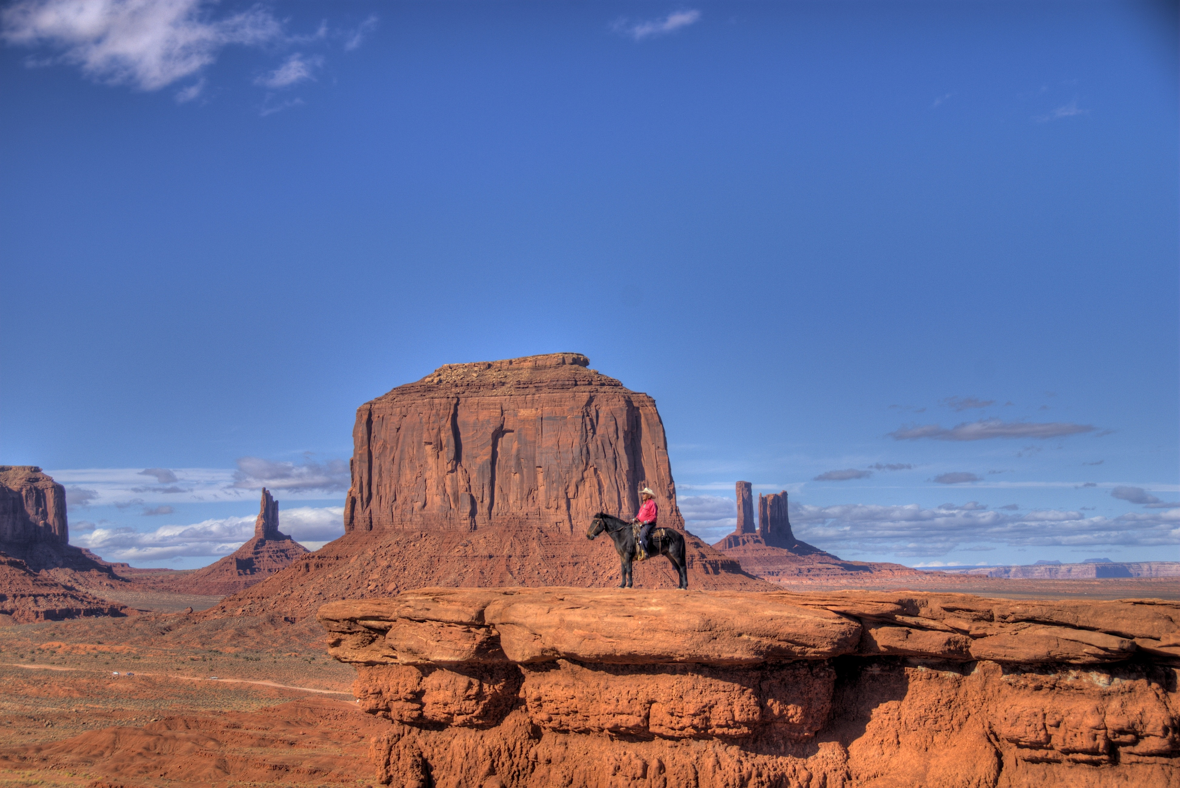 Indian on horseback in Monument Valley